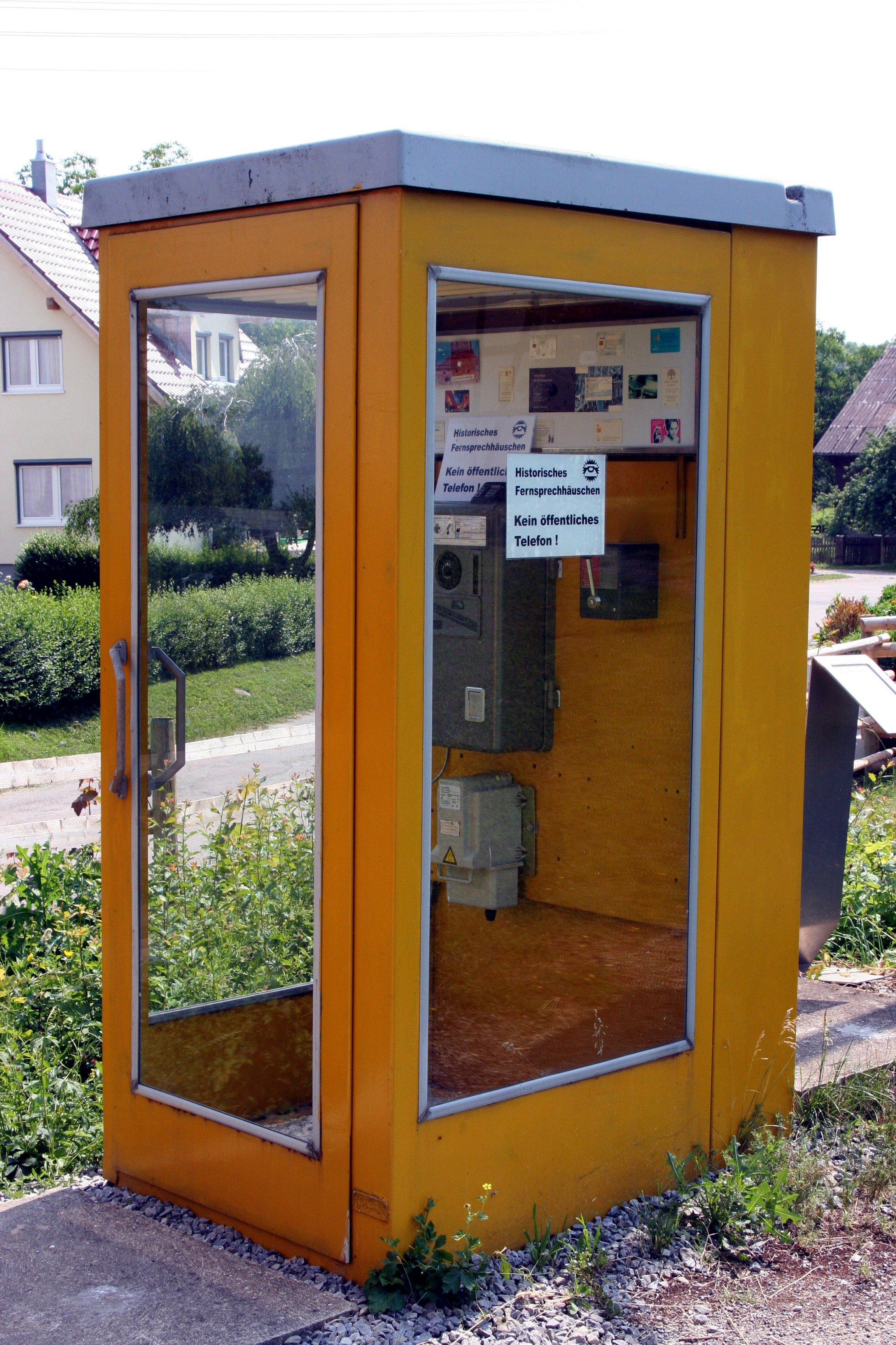 Phone booth, type TelH 55 from Oberrot , Germany, now in Hohenloher Freilandmuseum Wackershofen. Phone device: MünzFw 57, right aside an emergency dialer